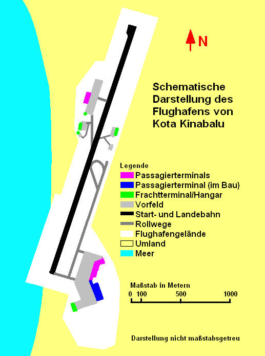 map of kota kinabalu airport